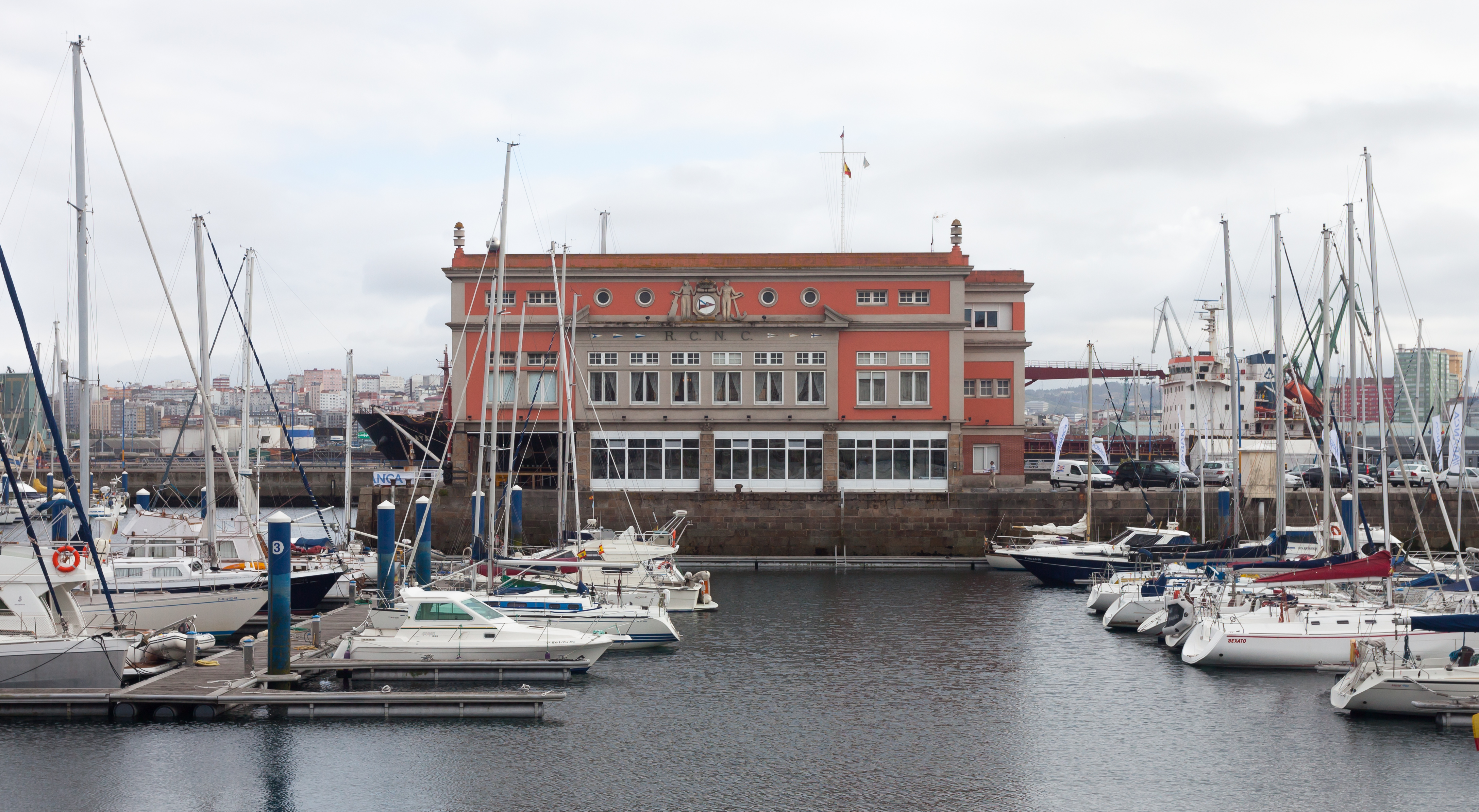 Building of Real Yacht Club of A Coruña, Galicia (Spain).